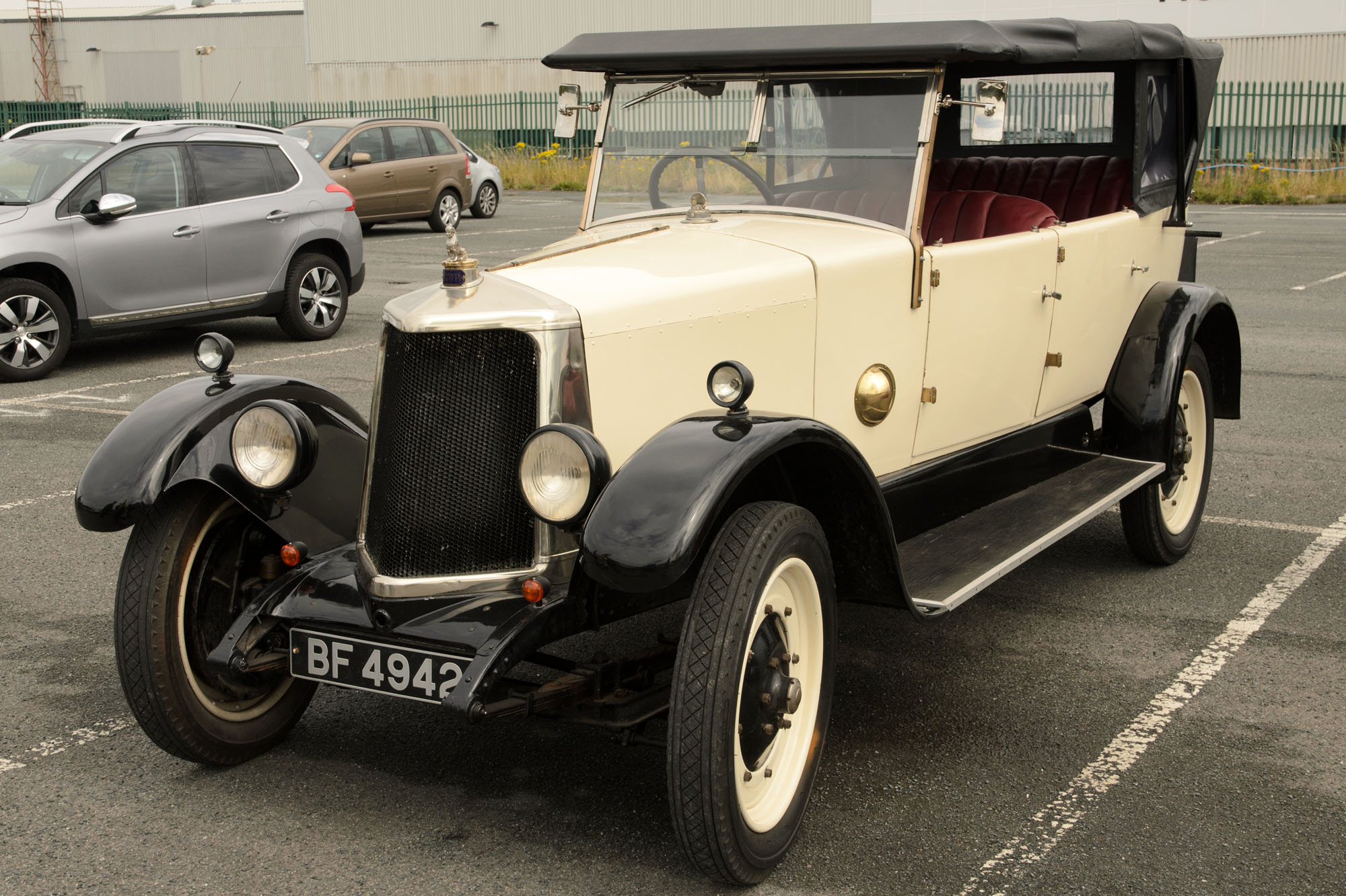 1927 Armstrong Siddeley 'Taunton Short 18' BF4942 (DVLA) manufactured 1927 2/08/2015 North Cheshire Classic Car Club at Ellesmere Port